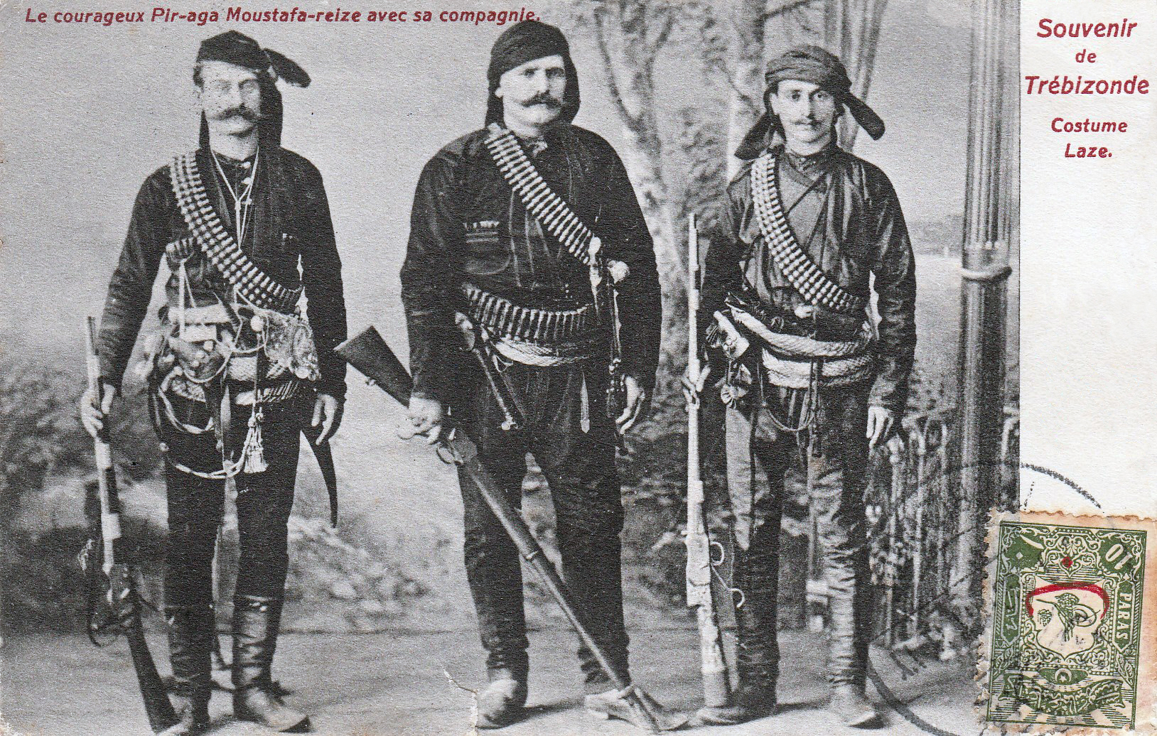 Postcard of soldiers in Laz national dress, Trebizond (Trabzon, Turkey).